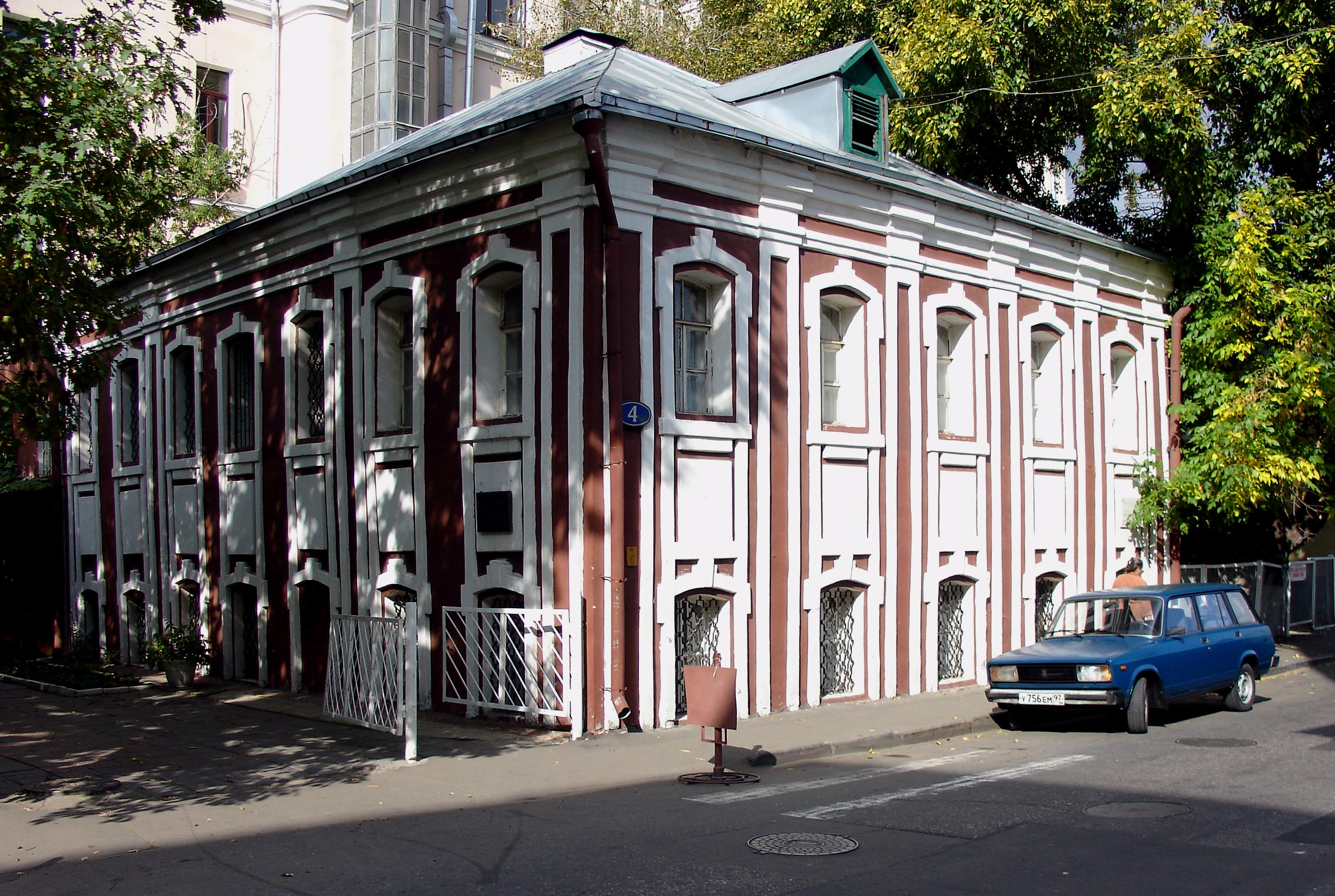 Baroque house, Raushskaya street, Zamoskvorechye, Moscow - the clergy's house.